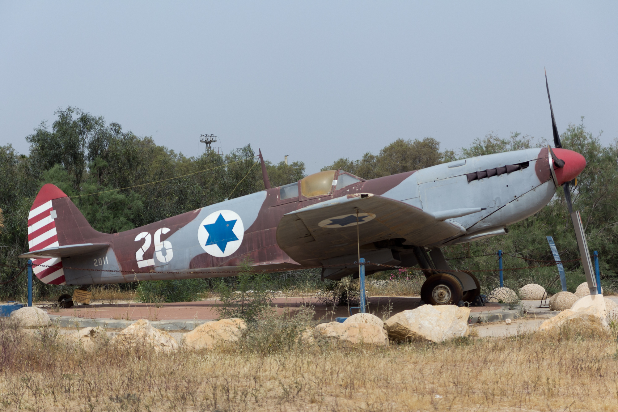 Supermarine Spitfire LF.MK.IXe TE578, former Israeli Air Force 20-28 painted as 20-11, at the Israeli Air Force Museum in Hatzerim